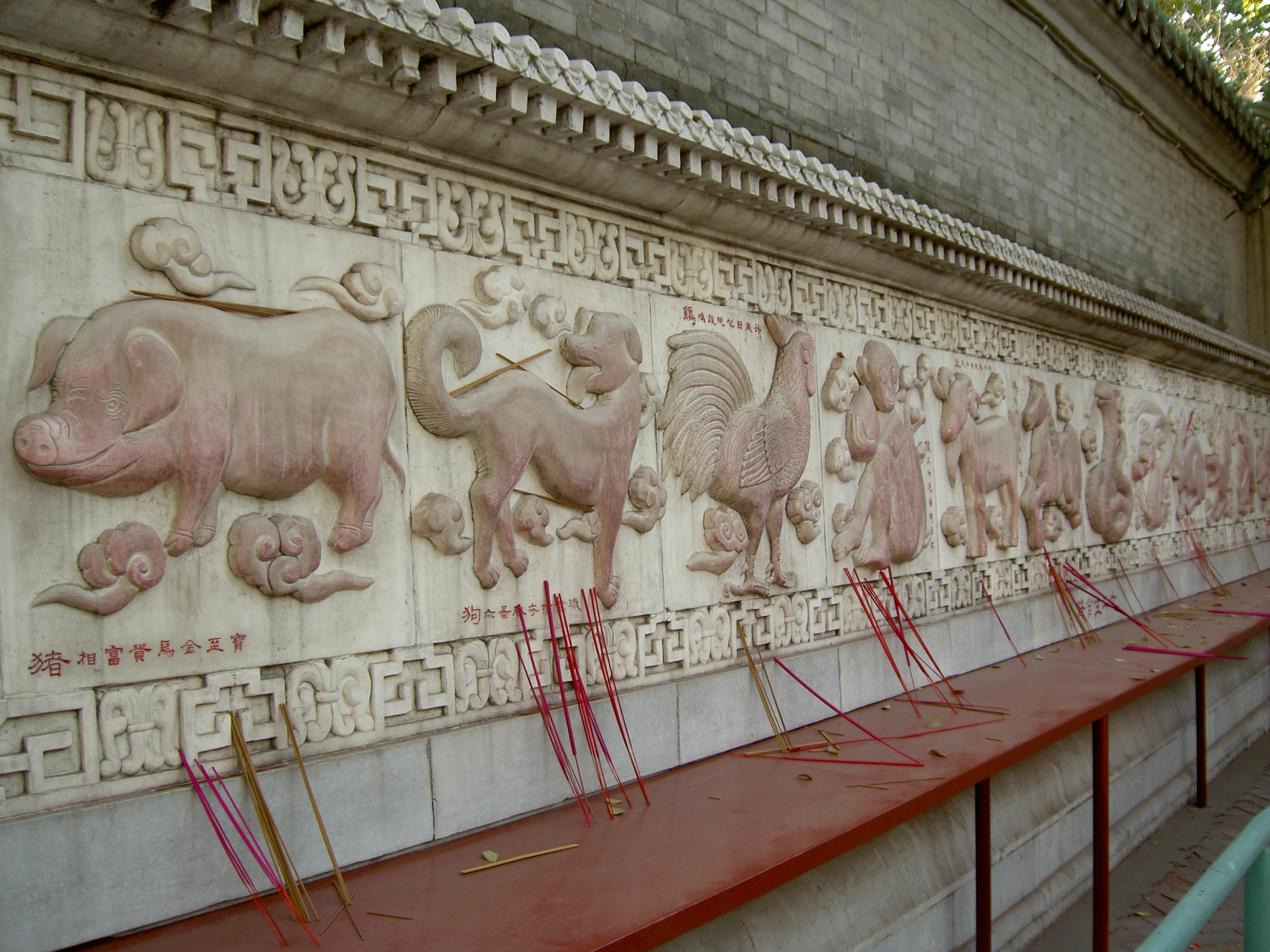 The White Cloud Temple in Beijing